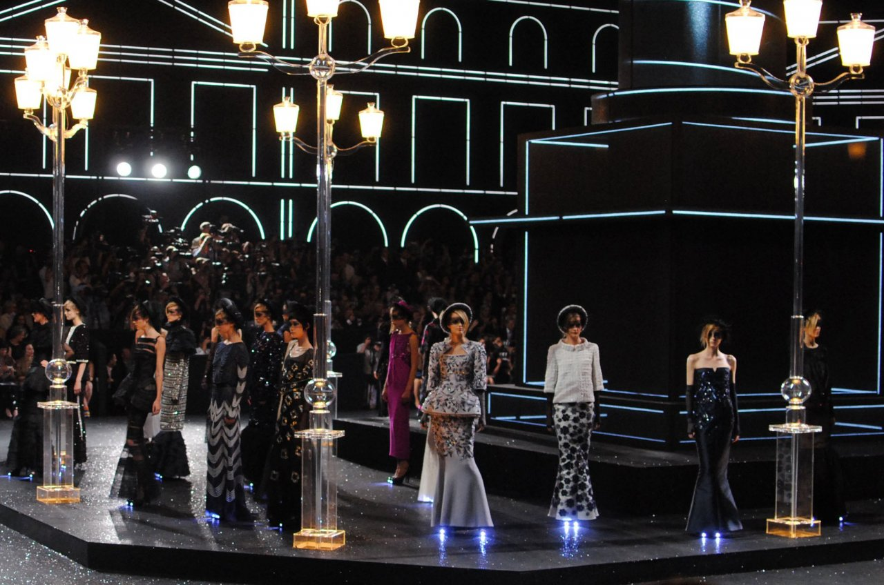 Chanel Haute Couture Fall-Winter 2011-2012 Fashion Show held at Grand Palais in Paris